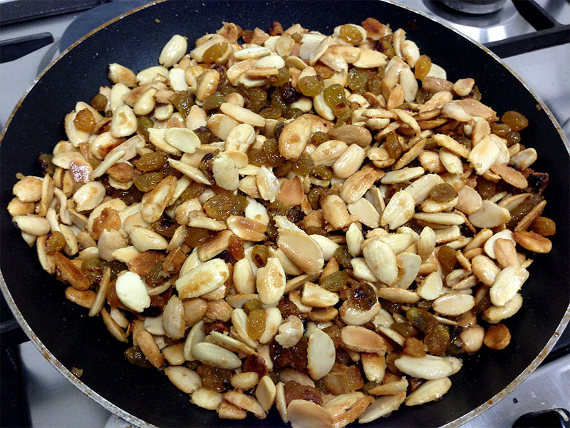 almonds and raisins a sweet dish sourced from morocco called اللوز والزبيب